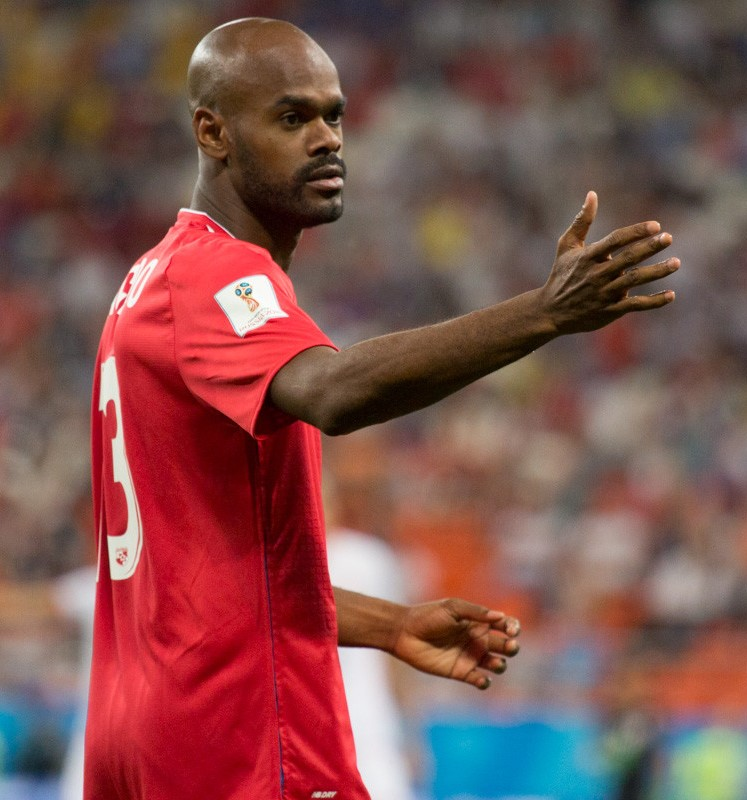 Adolfo Machado